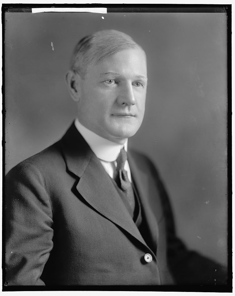 Gilbert, Ralph. Honorable